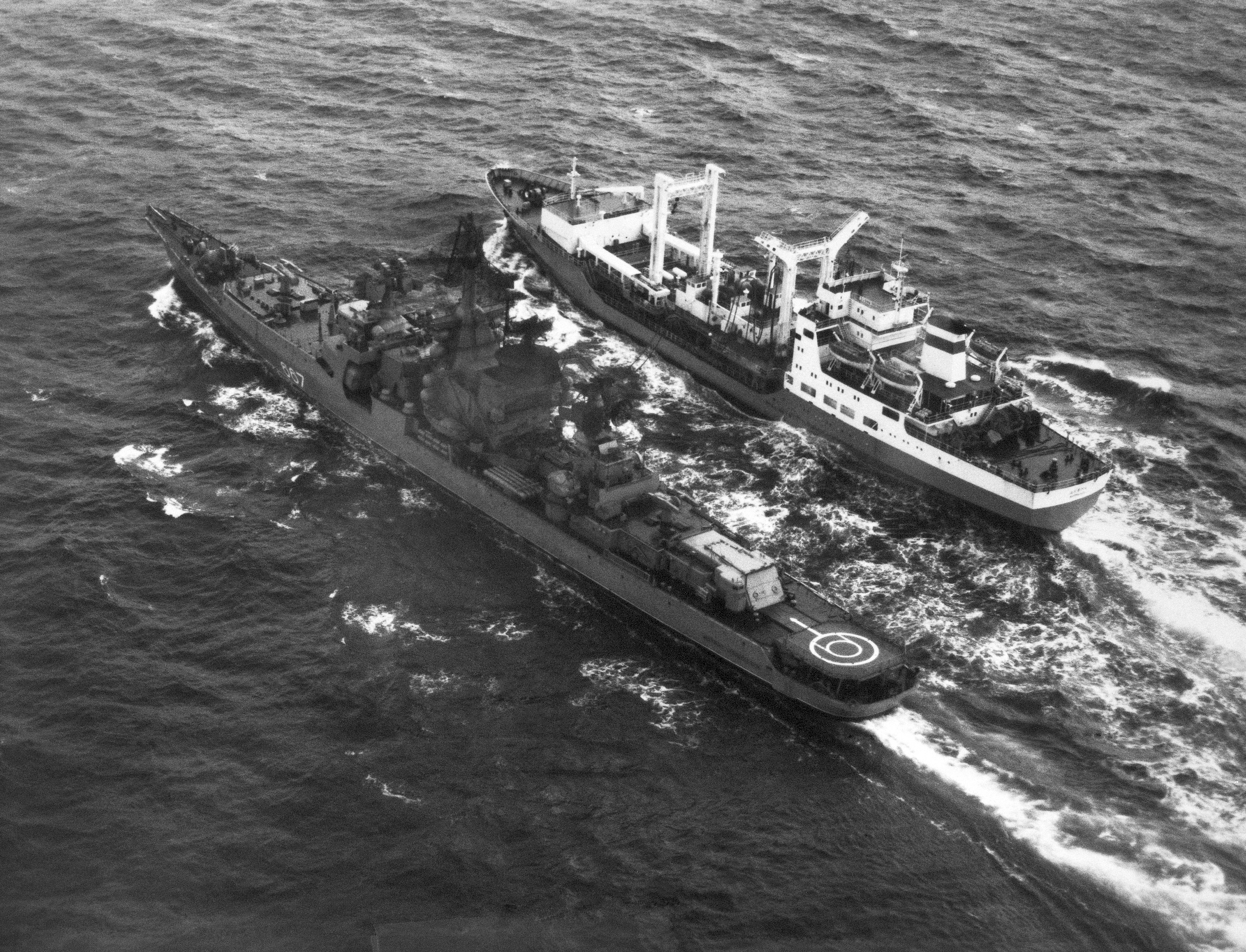 Aerial port quarter view of a Dubna class replenishment tanker, (right) refueling a Kresta II class guided missile cruiser while underway.